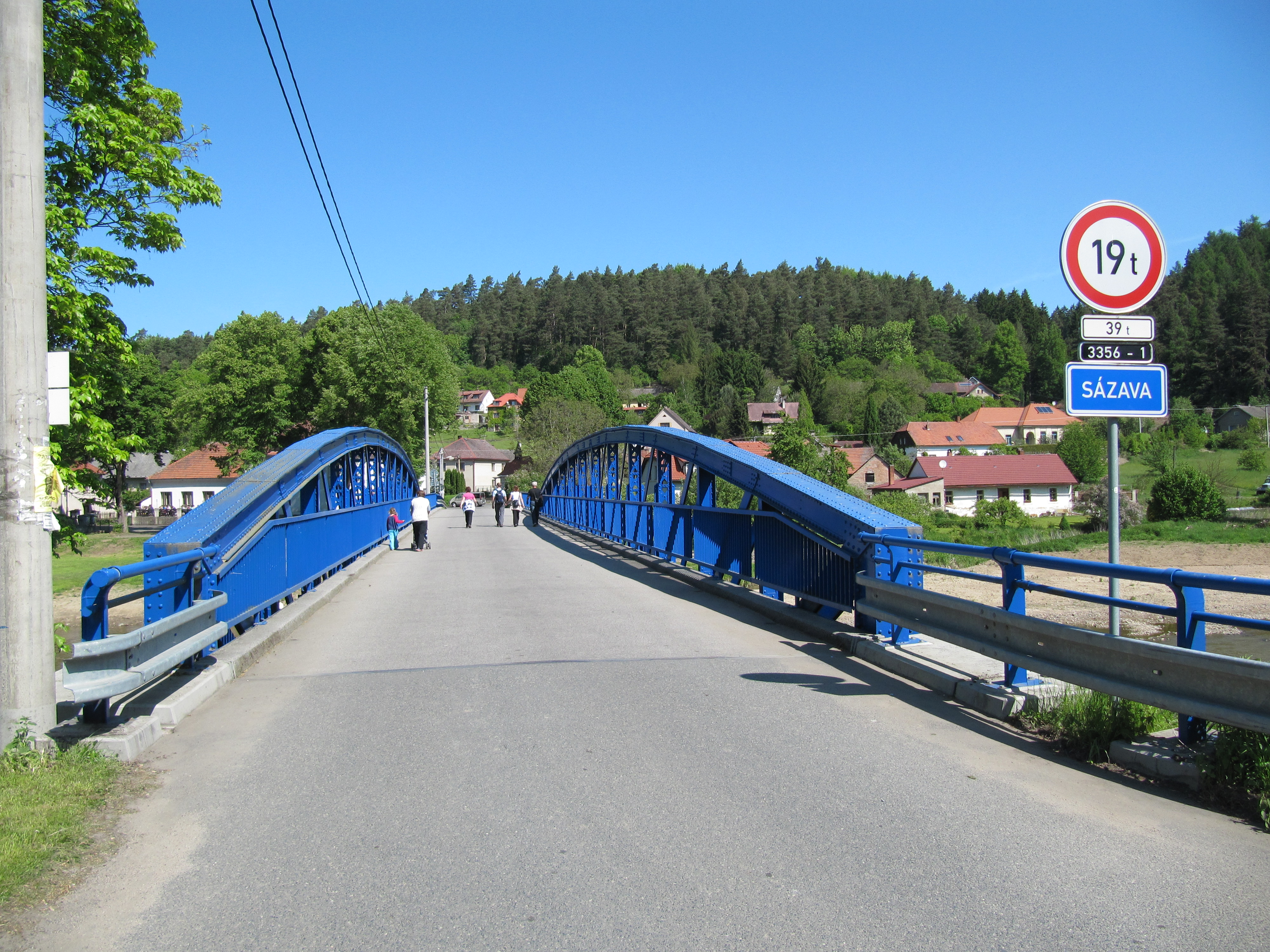 Ledečko in Kutná Hora District, Czech Republic. Bridge over the Sázava.